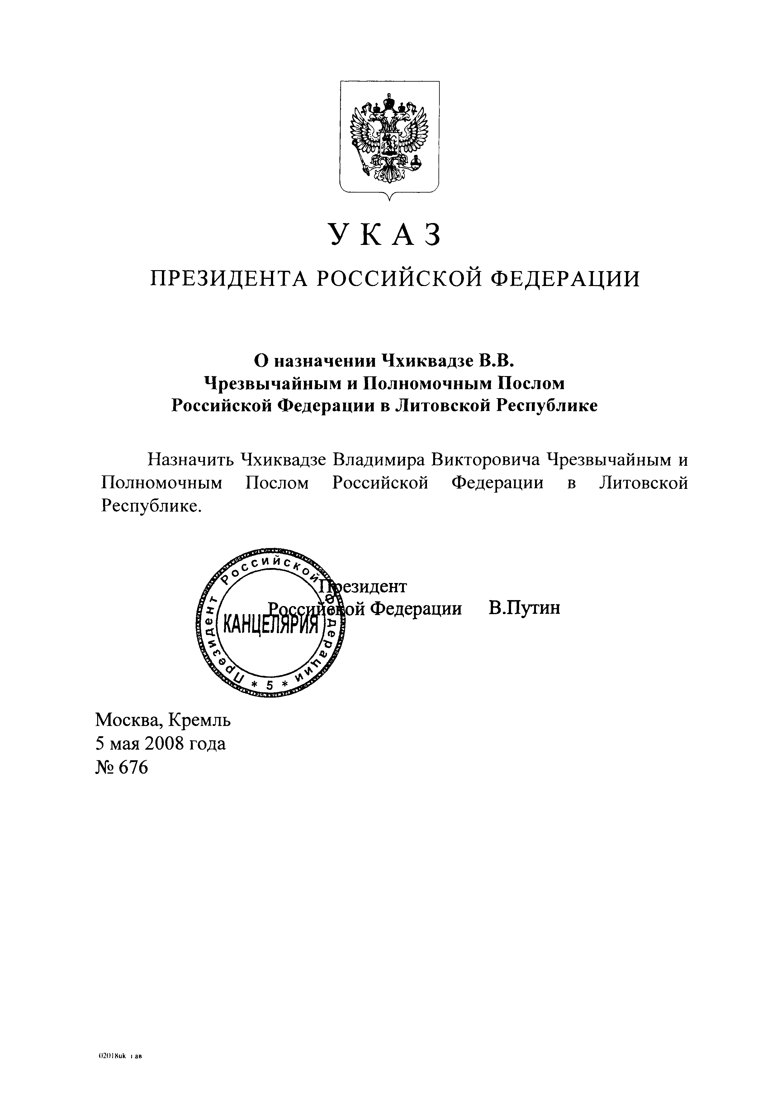 On the appointment of V.V. Chkhikvadze as the Plenipotentiary Ambassador of the Russian Federation to the Republic of Lithuania.